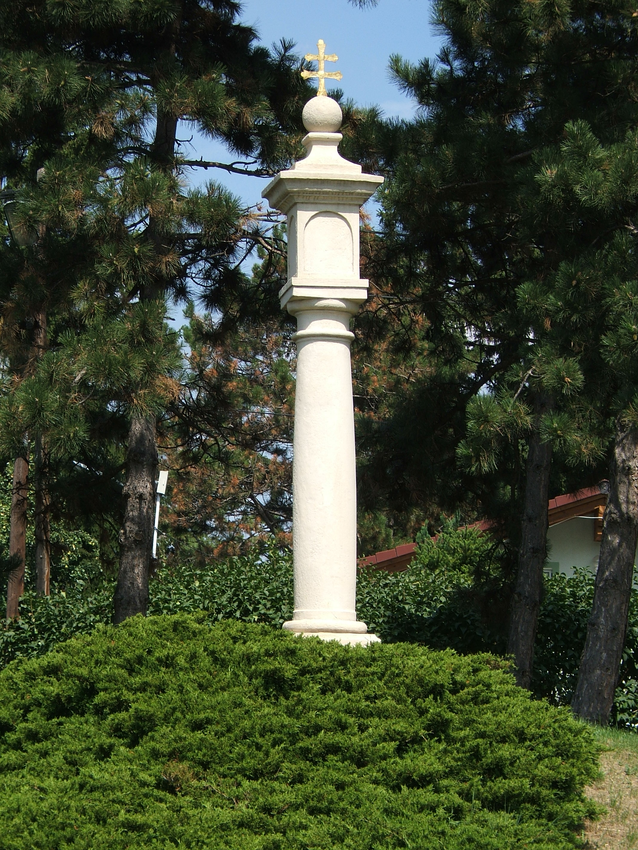 Pillar Kugelkreuz in the 21st district of Vienna, near Siemensstraße 167